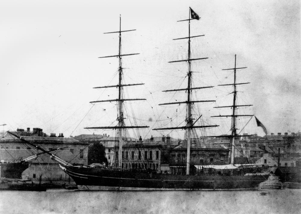 Halloween (ship)